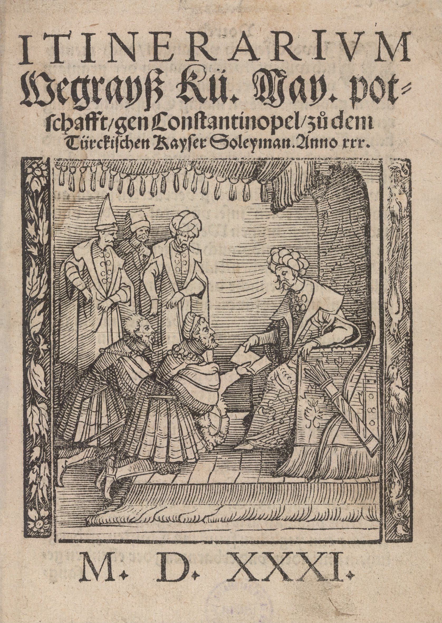 Itinerary of the travel to the Royal Mayor of Constantinople and the Turkish Emperor Suleiman.